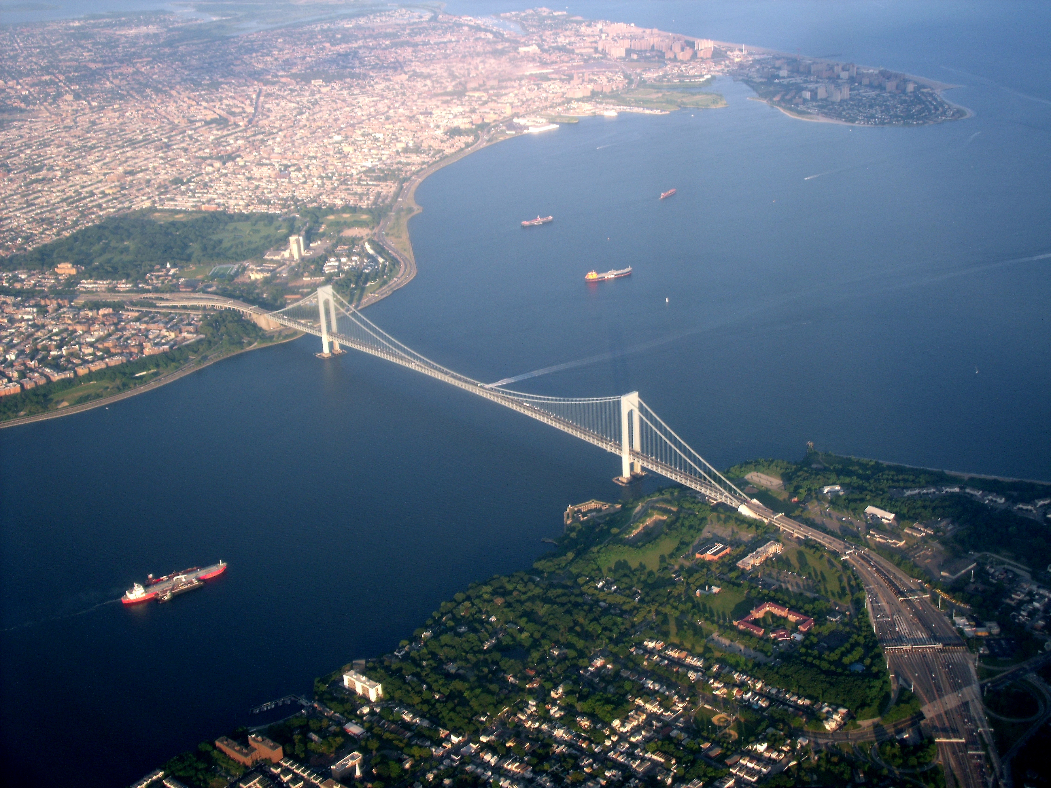 Verrazano-Narrows Bridge